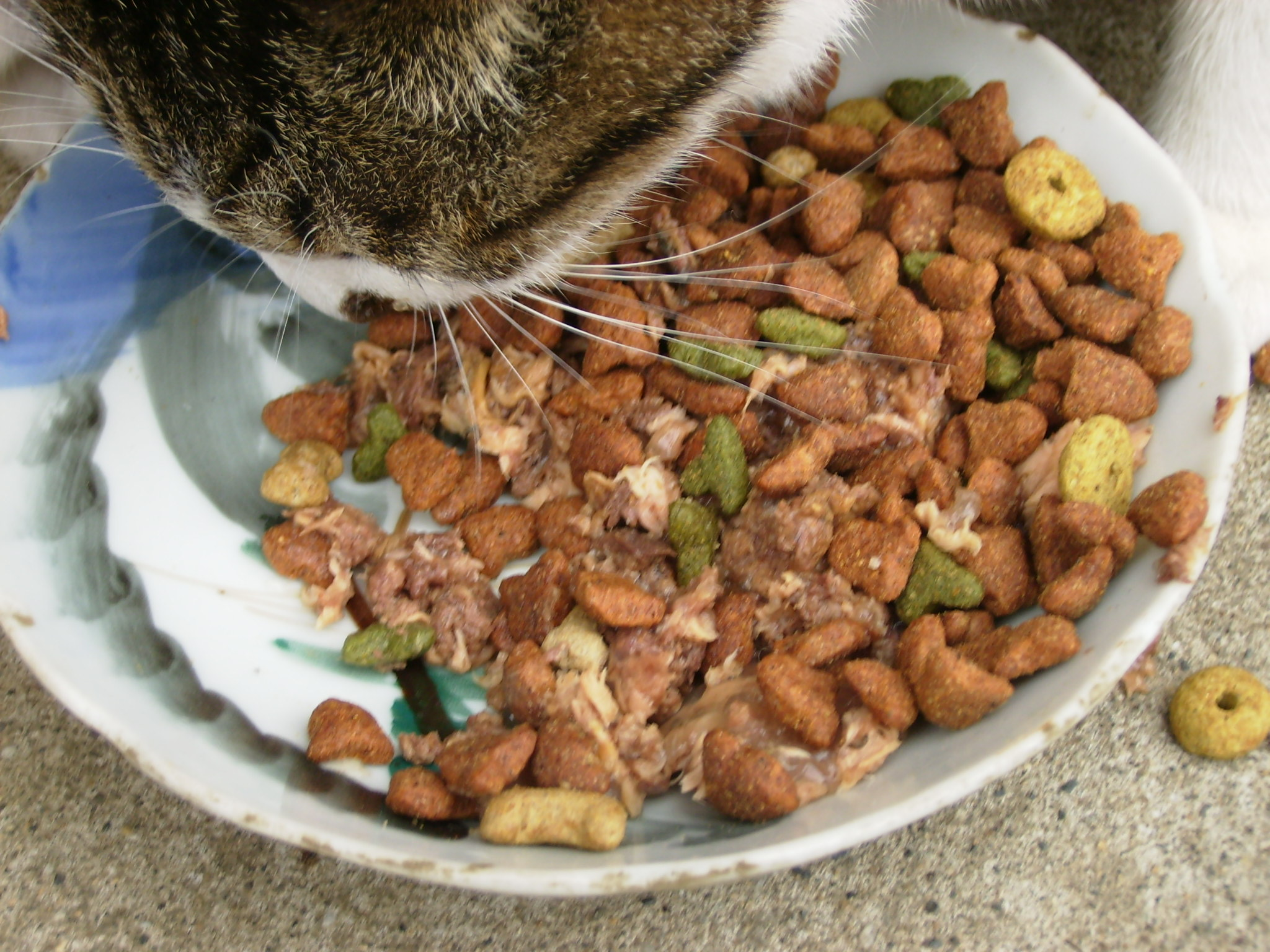 A cat enjoying her foods on the dish. This is a combination of a canned food and a "complete and balanced" dry food. Photograph by uploader, myself.